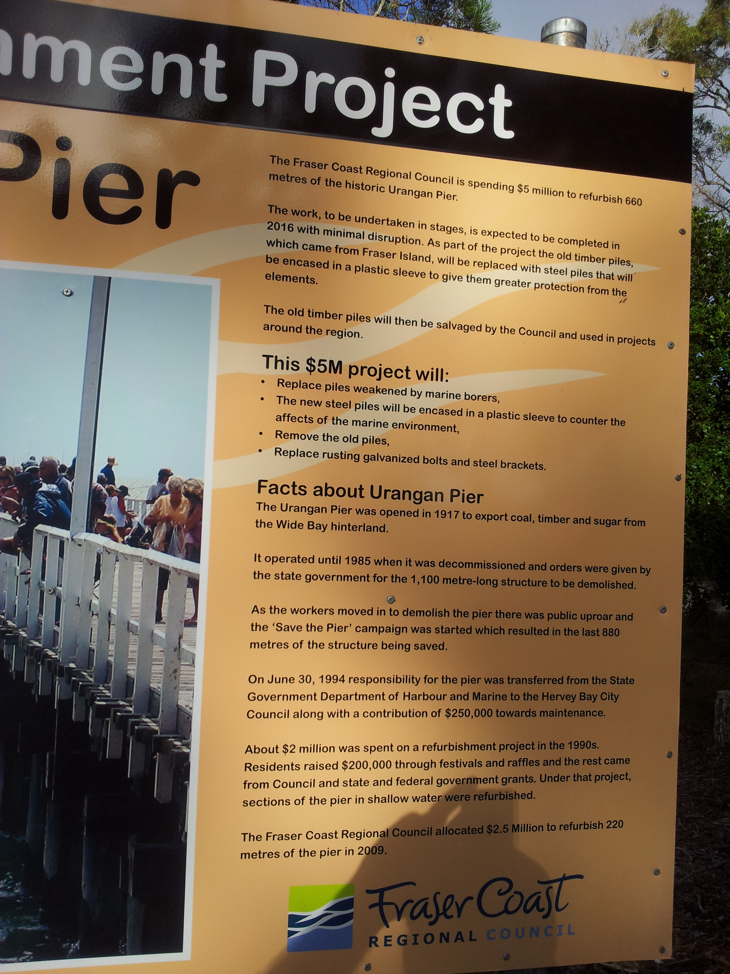 Urangan Pier Board QLD